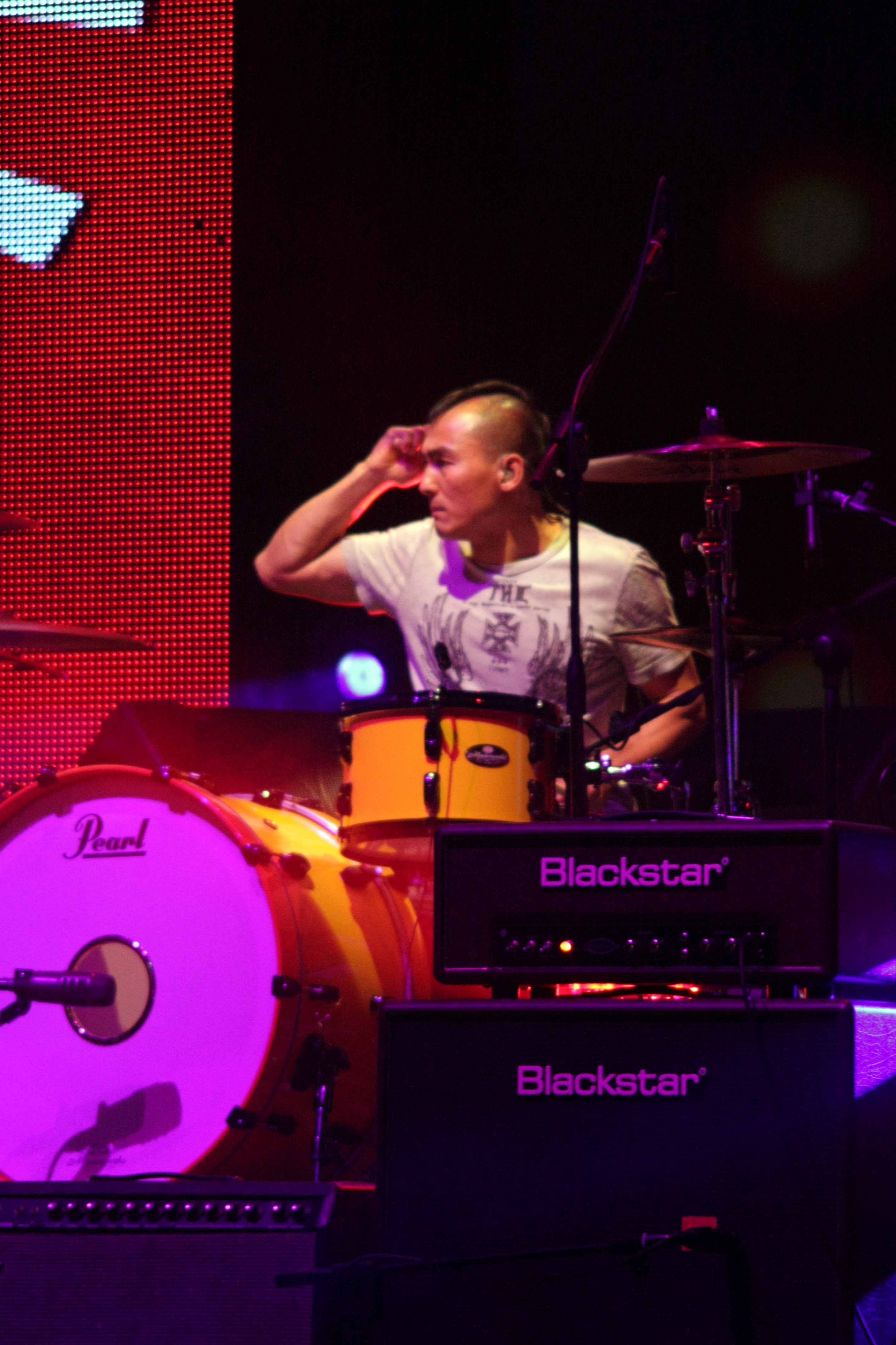 YB (band), Rock music groups from South Korea. Yoon Do Hyun Band